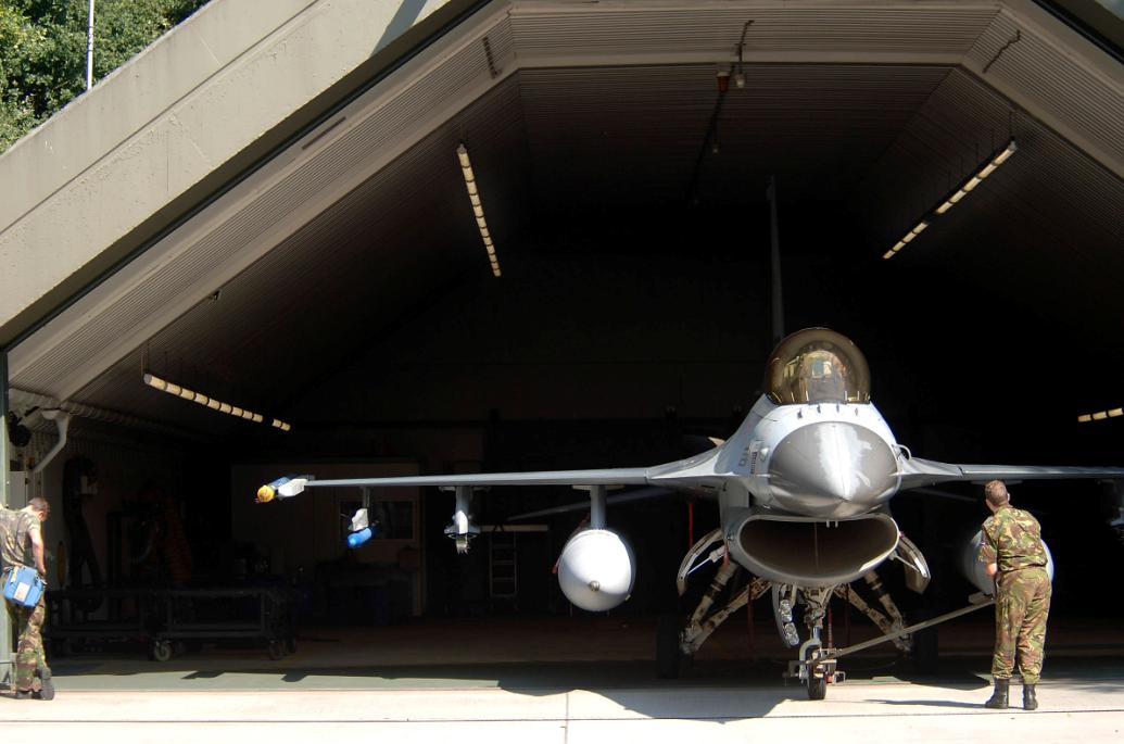 VOLKEL AIR BASE, Netherlands -- Dutch air force Sgt. Martijn De Boer (left) and Cpl. Jordy Luske tow a 306th Tactical Fighter Training Squadron F-16 Fighting Falcon into a hangar here. The plane returned from a training flight with Lt. Col. David Stein, an Air Force exchange pilot, at the controls. The colonel, from the Arizona Air National Guard's 162nd Fighter Wing at Tucson, Ariz., is ending a three-year tour with the Dutch air force's 1st Fighter wing. The Dutch airmen are crew chiefs. (U.S. Air Force photo by Senior Master Sgt. Keith Reed)